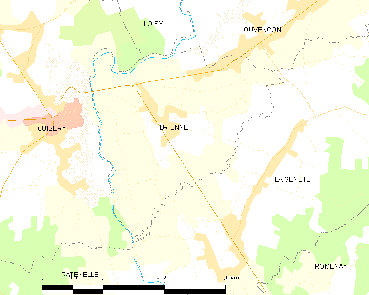 Map of French municipality